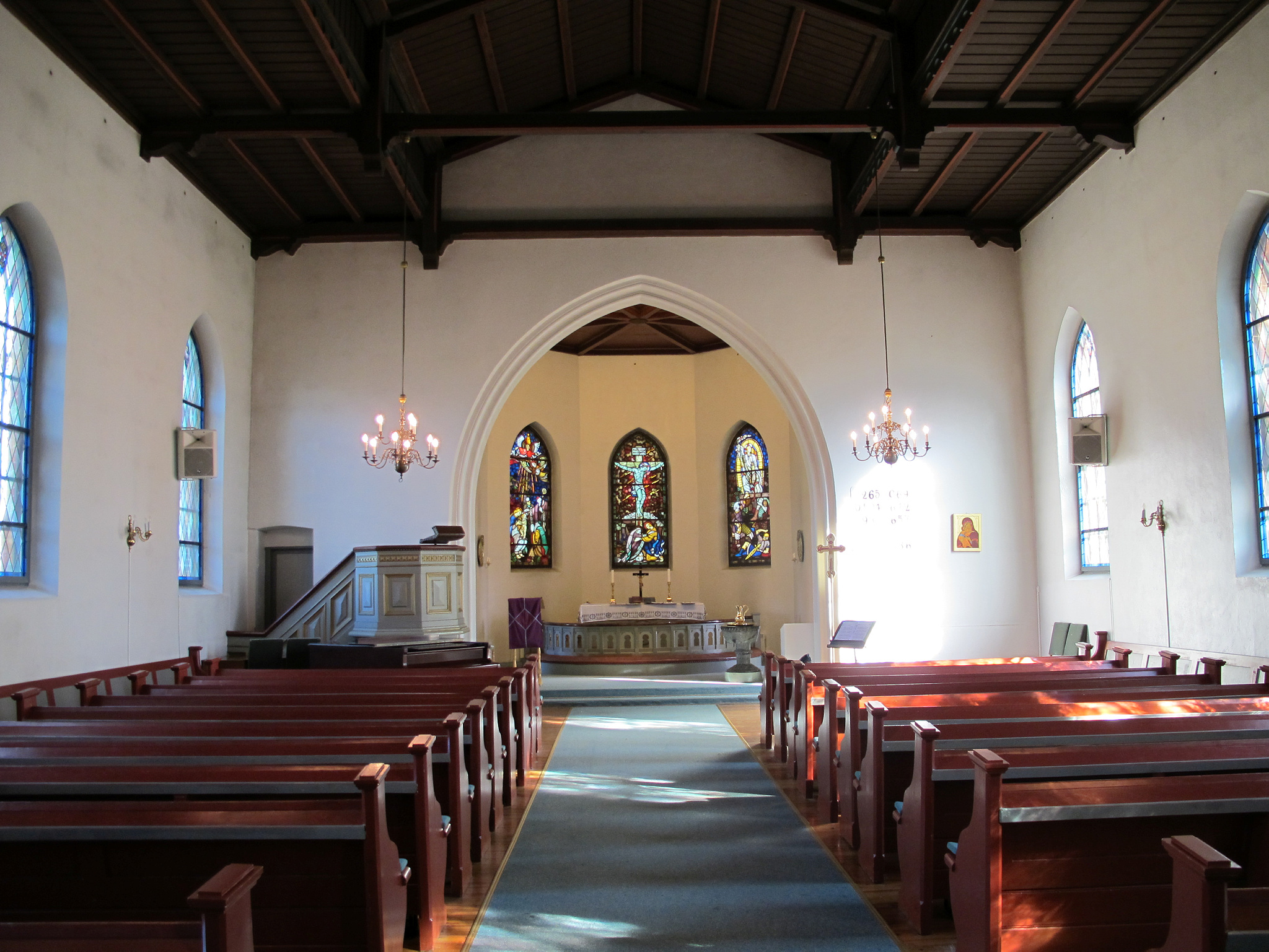 Interiør i Ås kirke (Akershus). Befaring i forbindelse med planer om oppmaling av kirken innvendig for en tilbakeføring av fargesetting. Foto: Kjersti Marie Ellewsen, fra Kulturminnebilder.no.